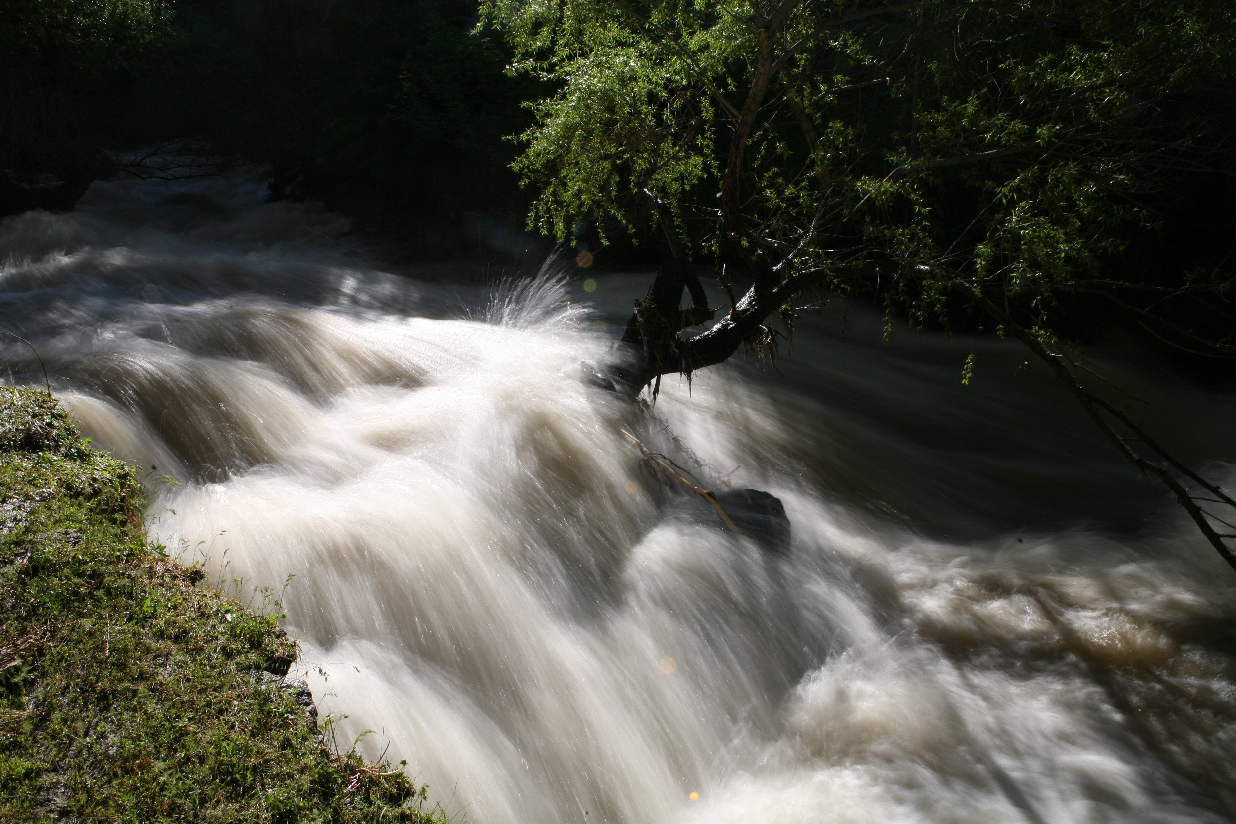 the Vedi River